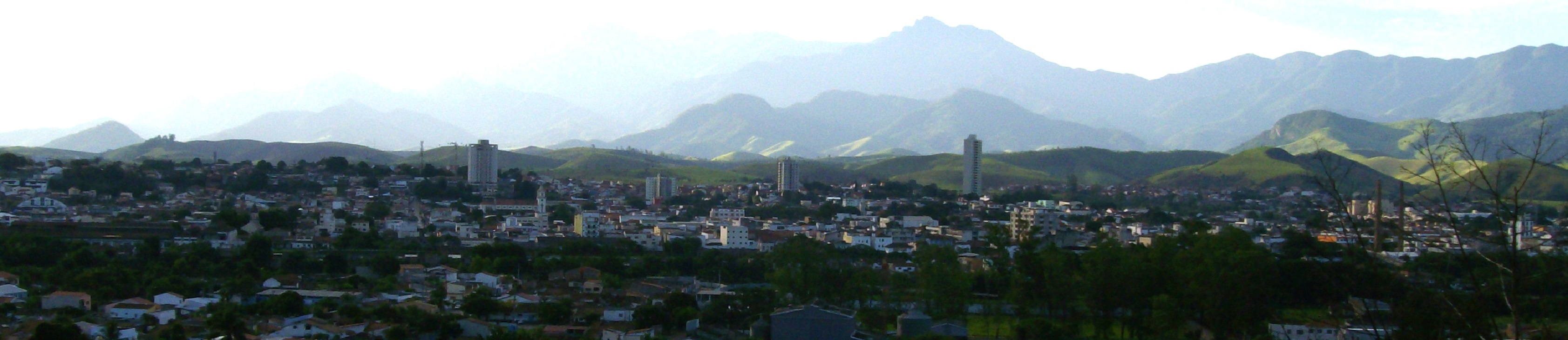 Panoramic view of Cruzeiro-SP from Itagaçaba neighborhood